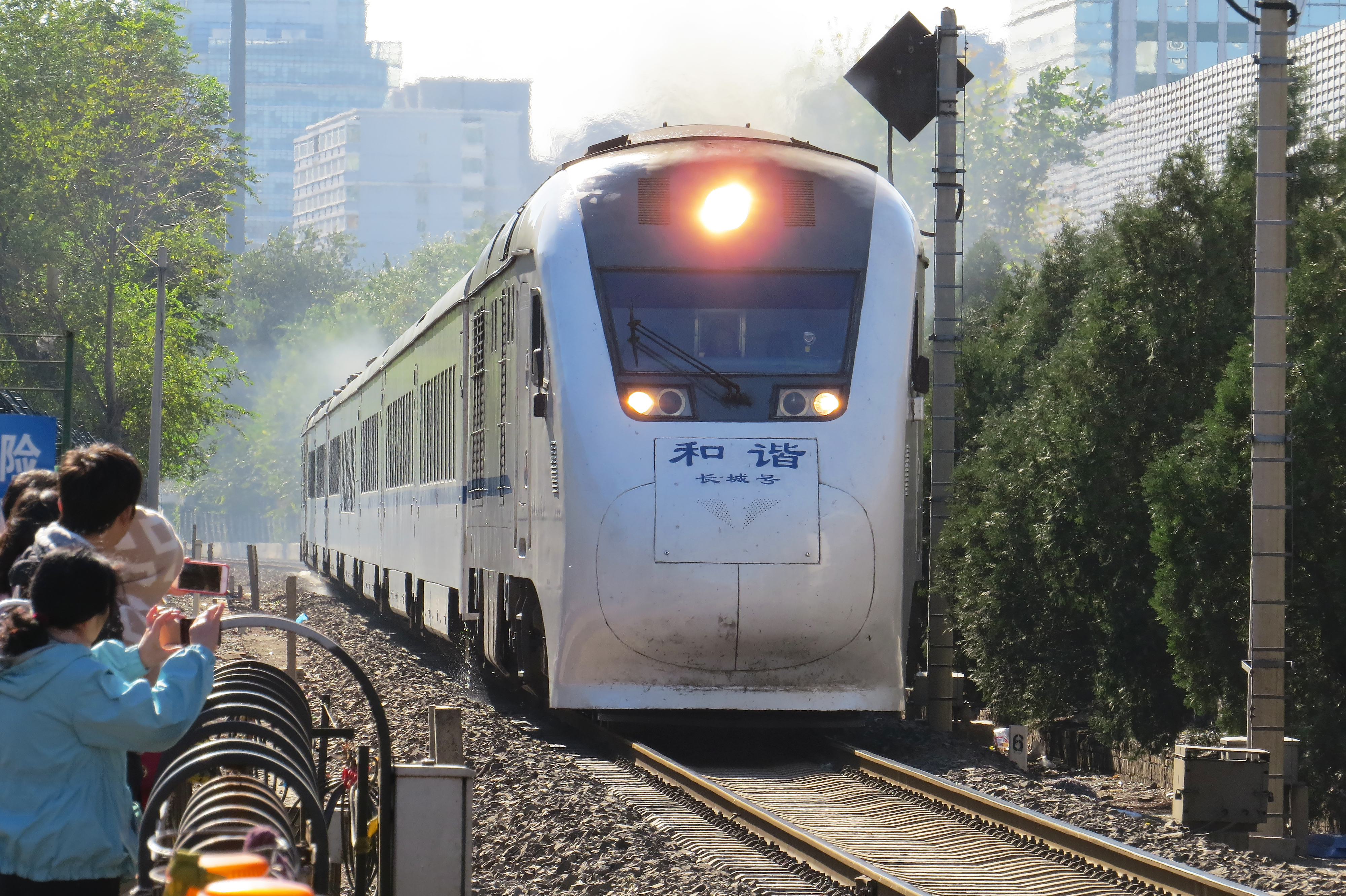 【伝説から神話へ -WUDAOKOU…AT LAST-】S209 to Yanqing. The "Large White Pigs" were transferred to Huangtudian - or Huoying since 1 Nov 2016.